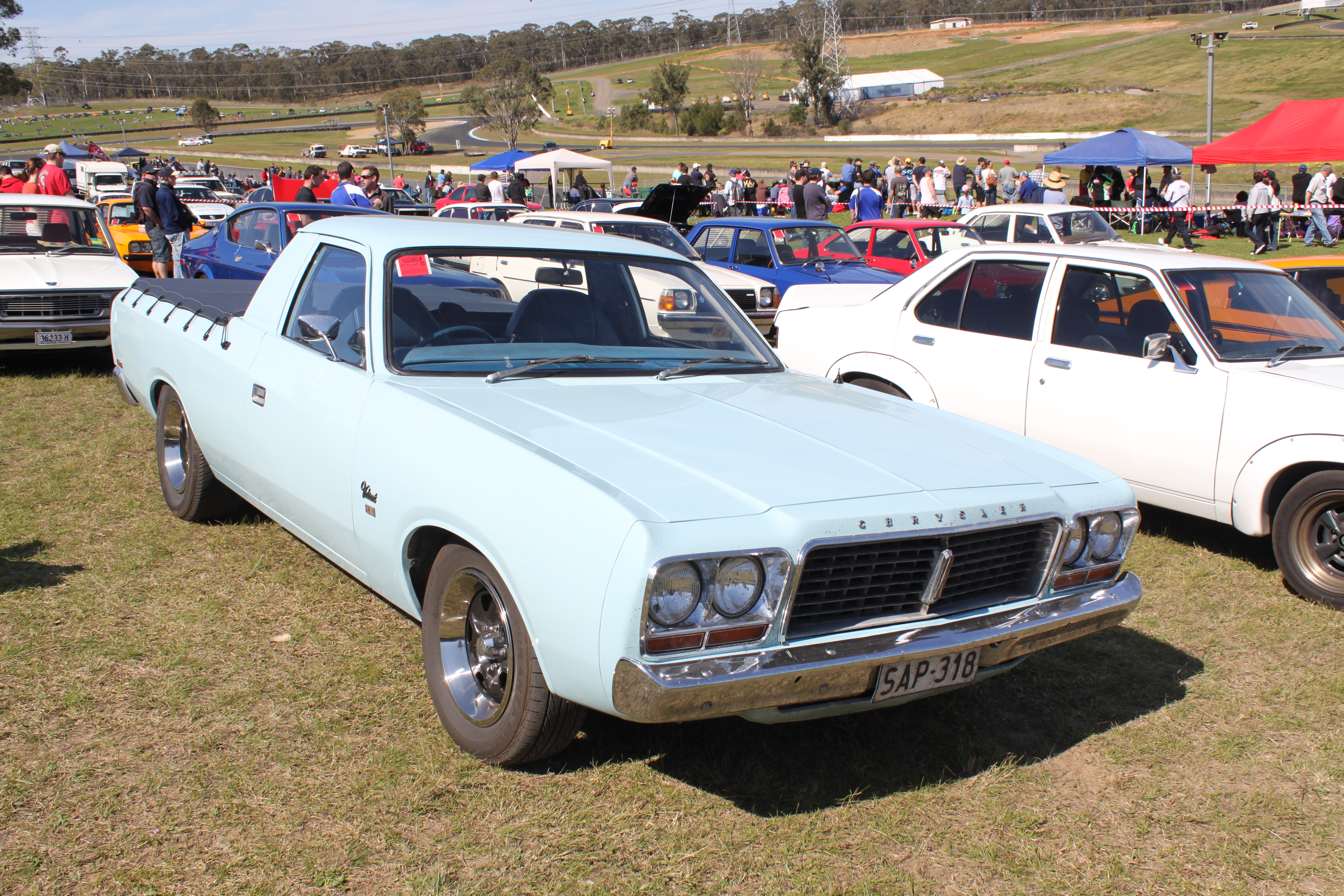 Chrysler Valiant CL Ute